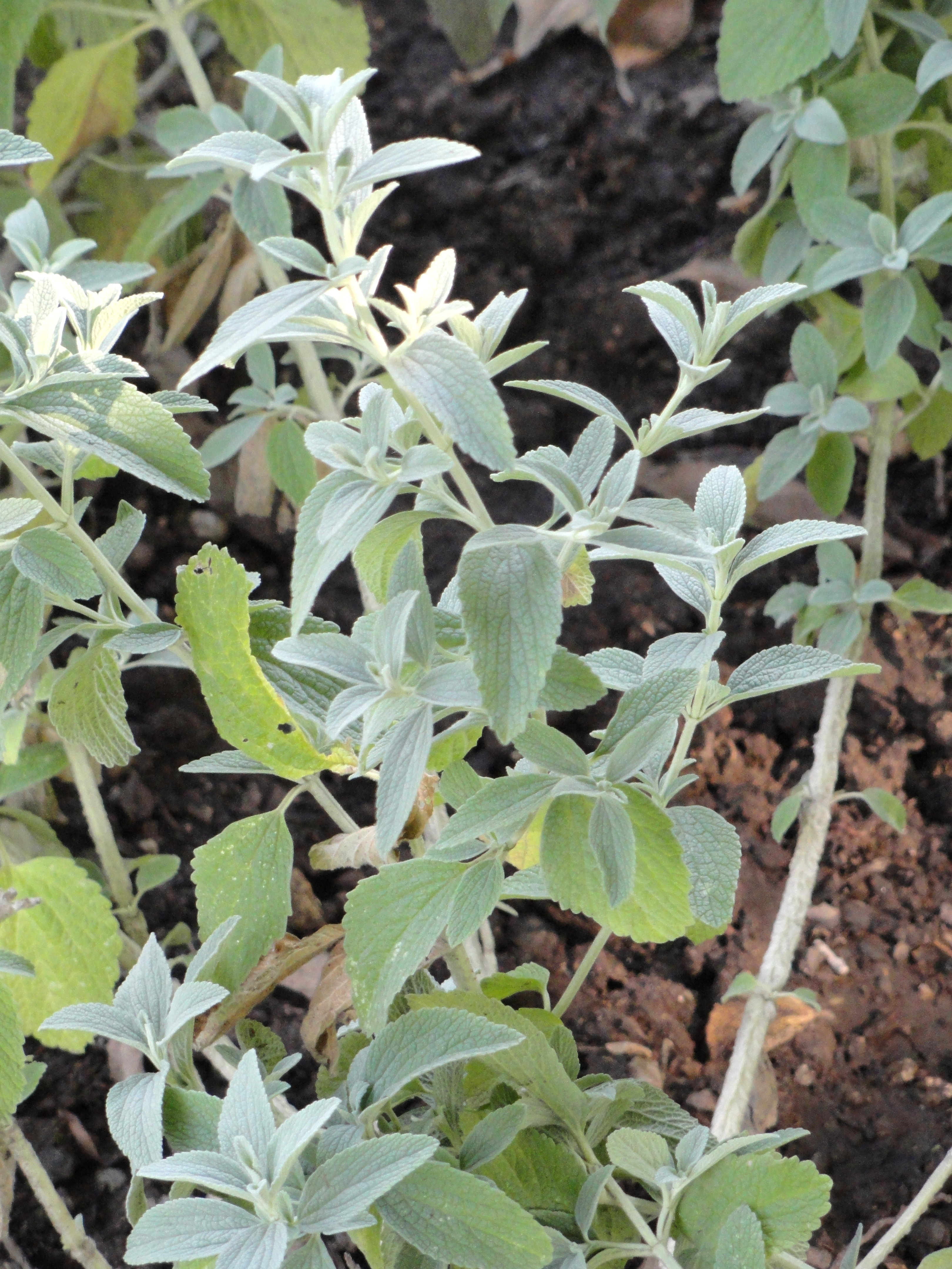 Botanical specimen in the Botanischer Garten, Frankfurt am Main, Germany.